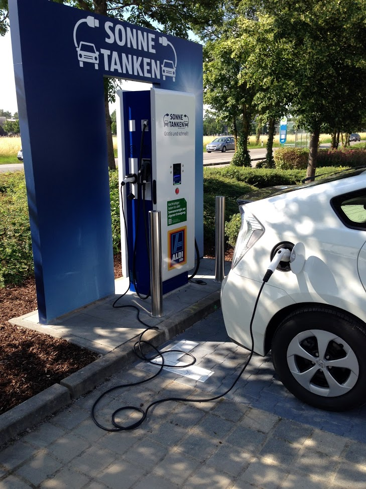 A Prius plug-in to a German type II electric car charging station